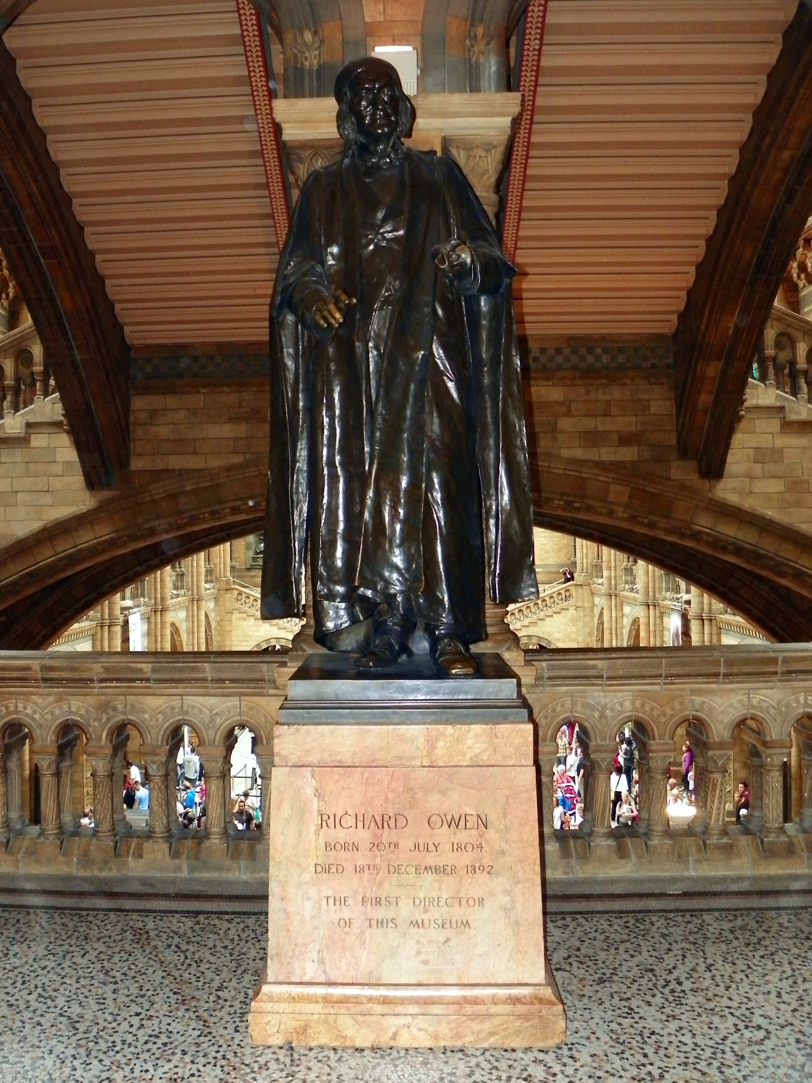 Richard Owen statue, Natural History Museum, London, 27 August 2012. Owen (1804-1892) was the first director of the Natural History Museum.